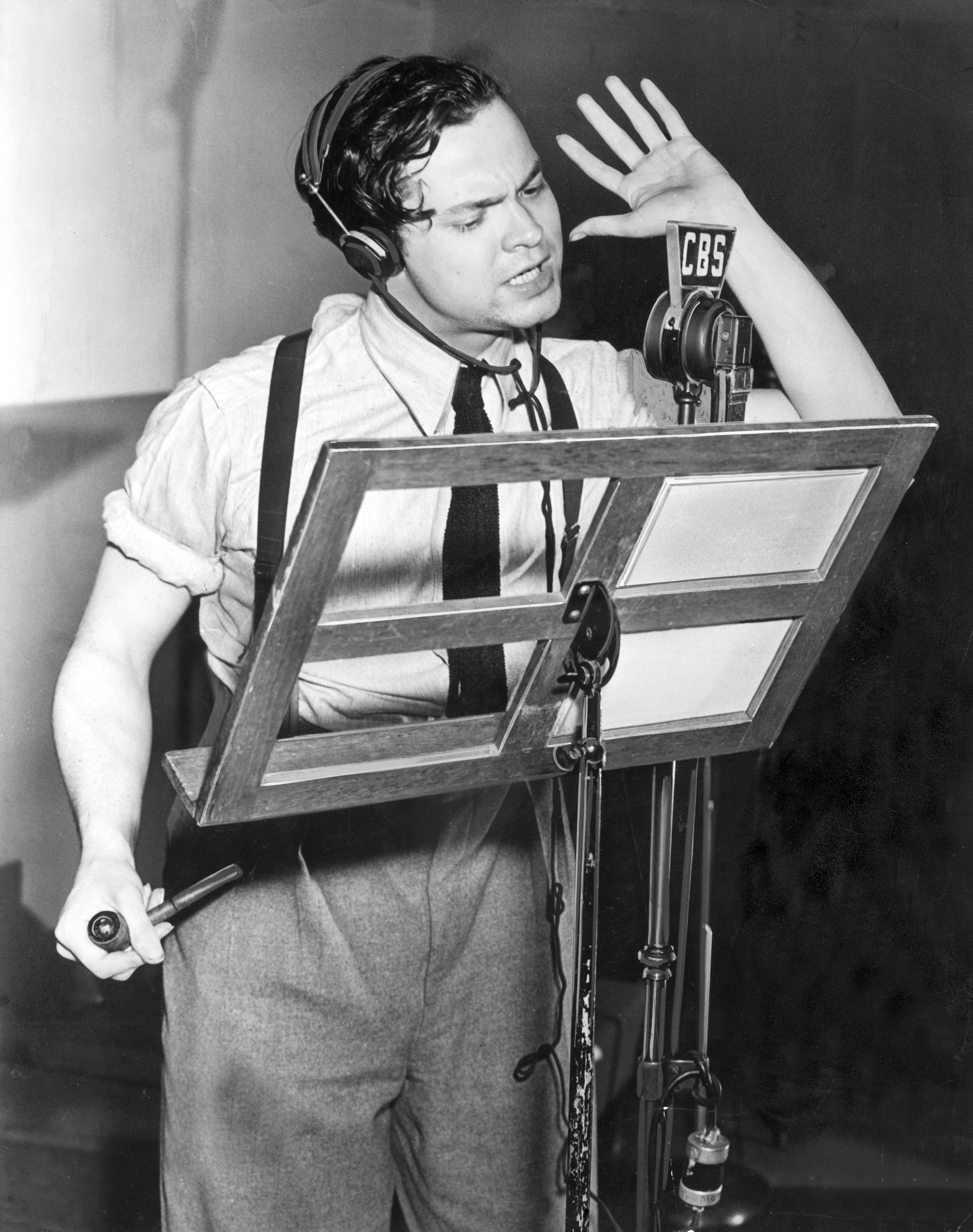 Promotional photo of Orson Welles directing First Person Singular, later known as The Mercury Theatre on the Air